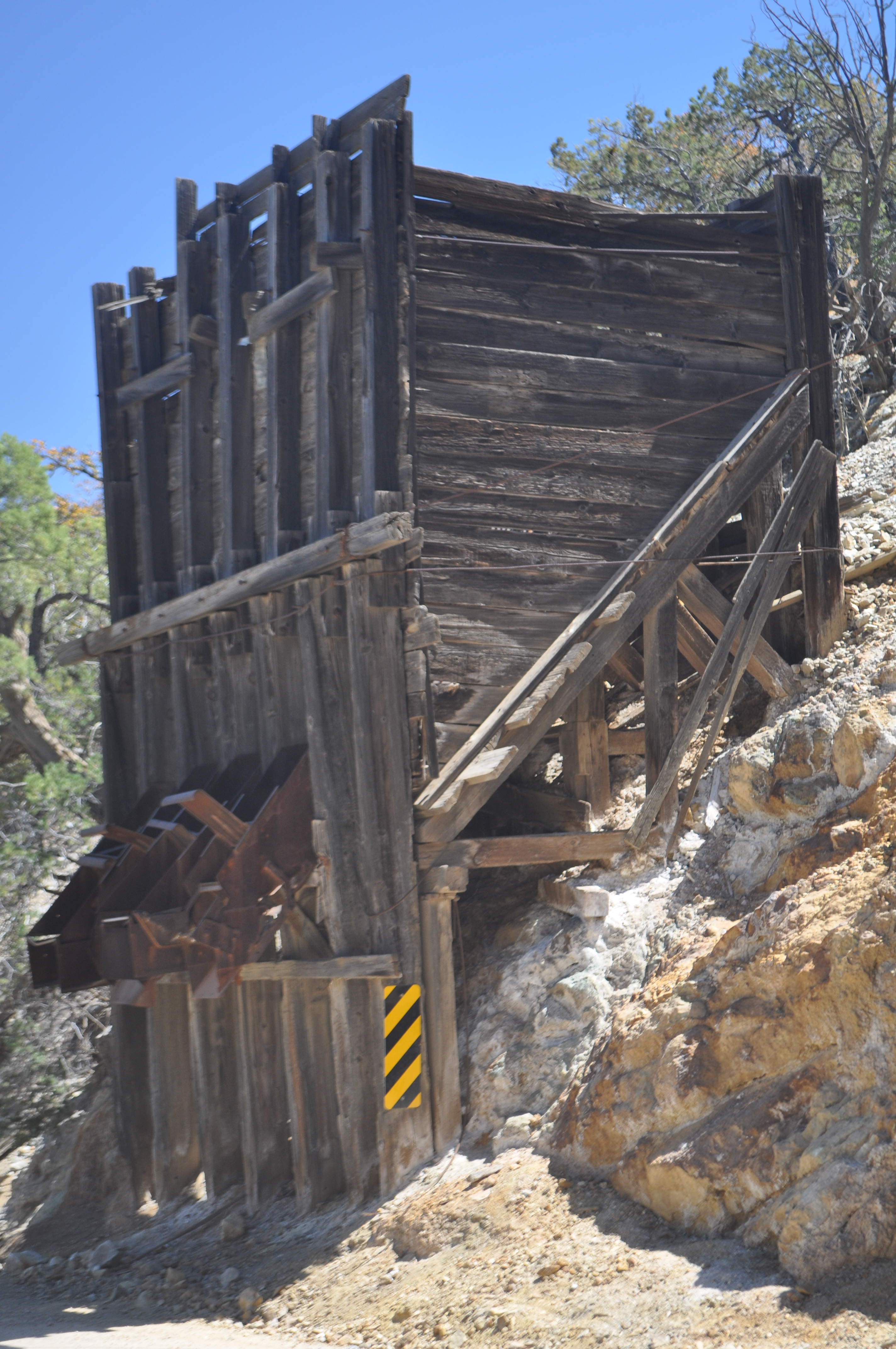 This a mine about a mile northwest of Washington camp on the road to Rio Rico. It is probably the Kansas mine. Open shafts remain in the vicinity.